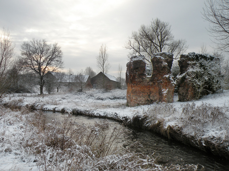 kasteelruïne Naborch (ook: Oudborg) te Swalmen NL / Naborch aka Oudborg, Swalmen, The Netherlands